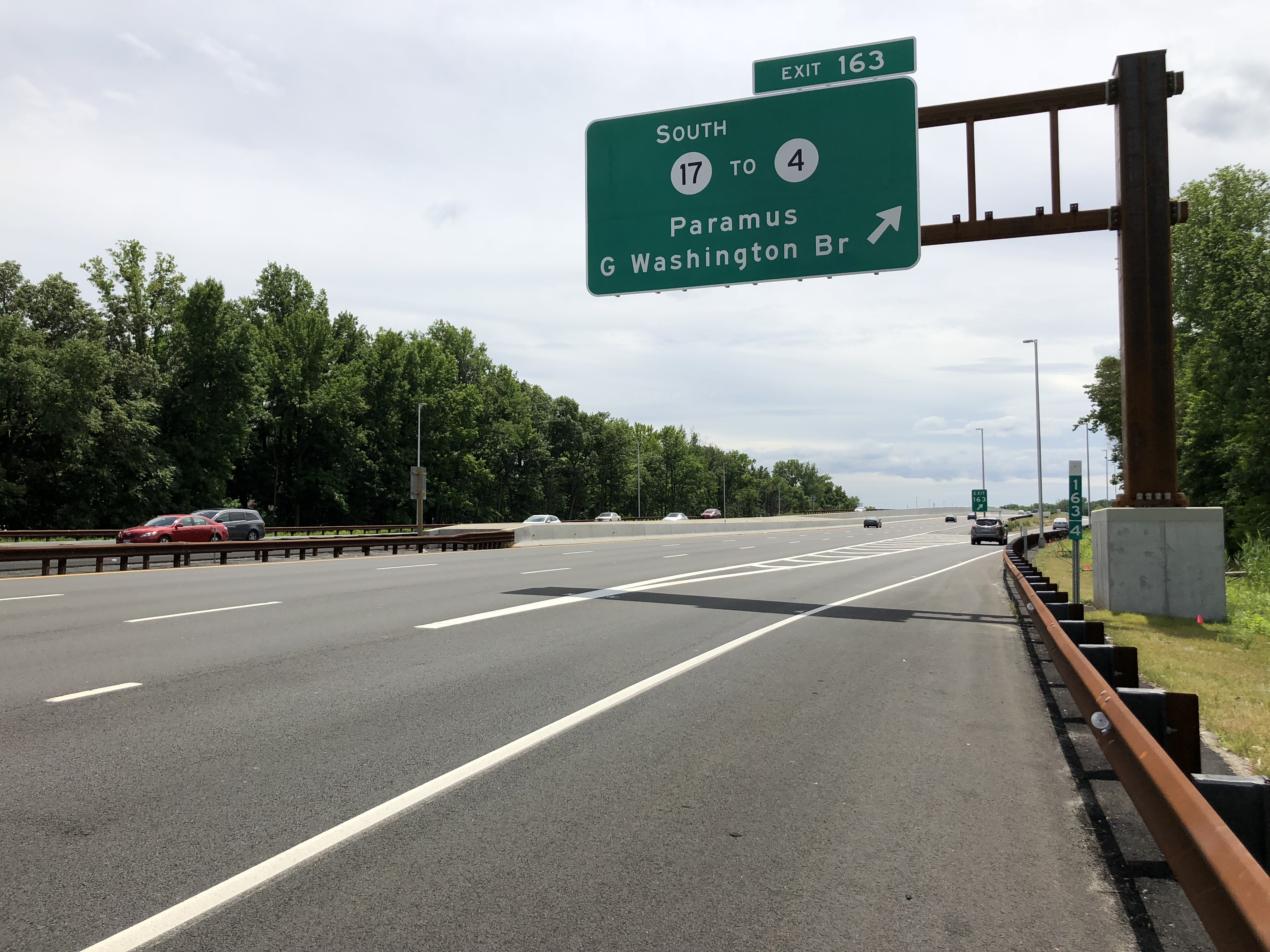 View south along New Jersey State Route 444 (Garden State Parkway) at Exit 163 (SOUTH New Jersey State Route 17 to New Jersey State Route 4, Paramus, George Washington Bridge) in Paramus, Bergen County, New Jersey